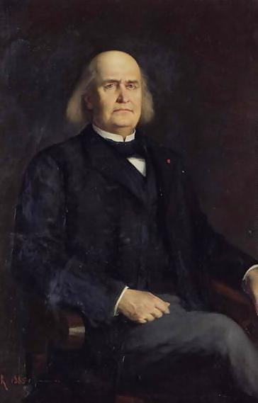 Portrait of Leconte de Lisle by Blanquer Jacques-Léonard